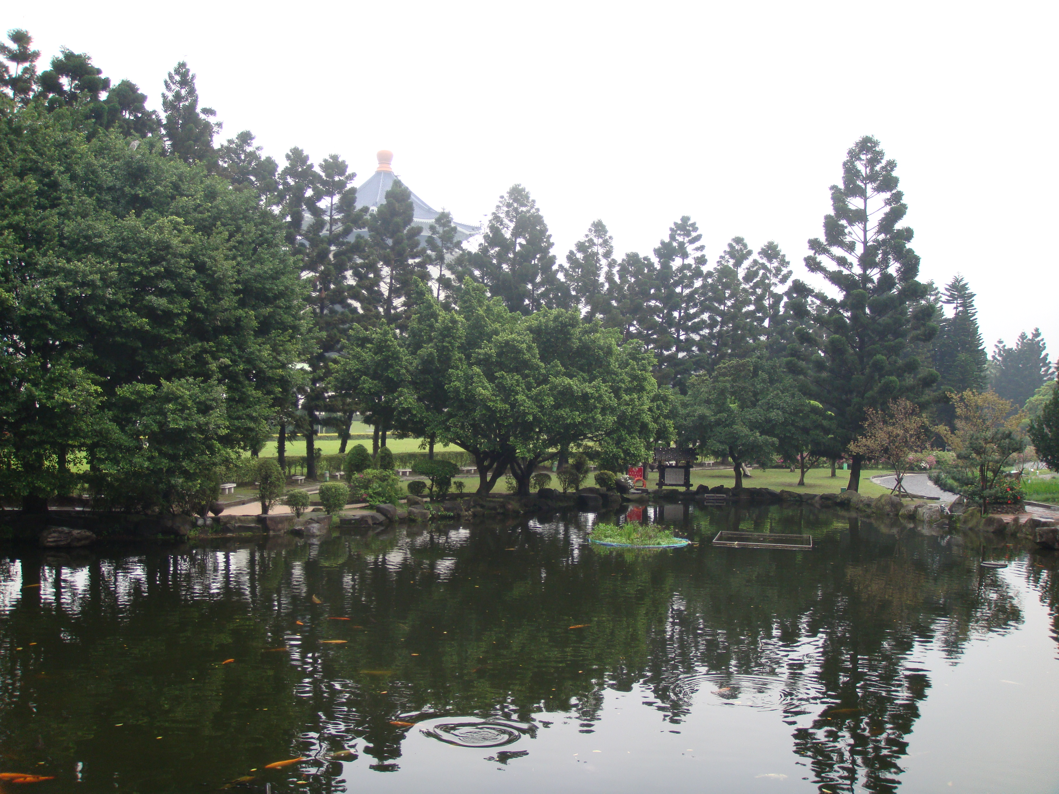 View of the park at Chiang Kai-shek Memorial Hall.